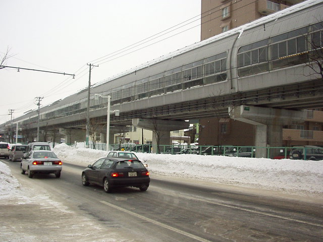 Shelter of Sapporo Subway Namboku Line (Taken between Sumikawa Station and Jieitai Mae Station)